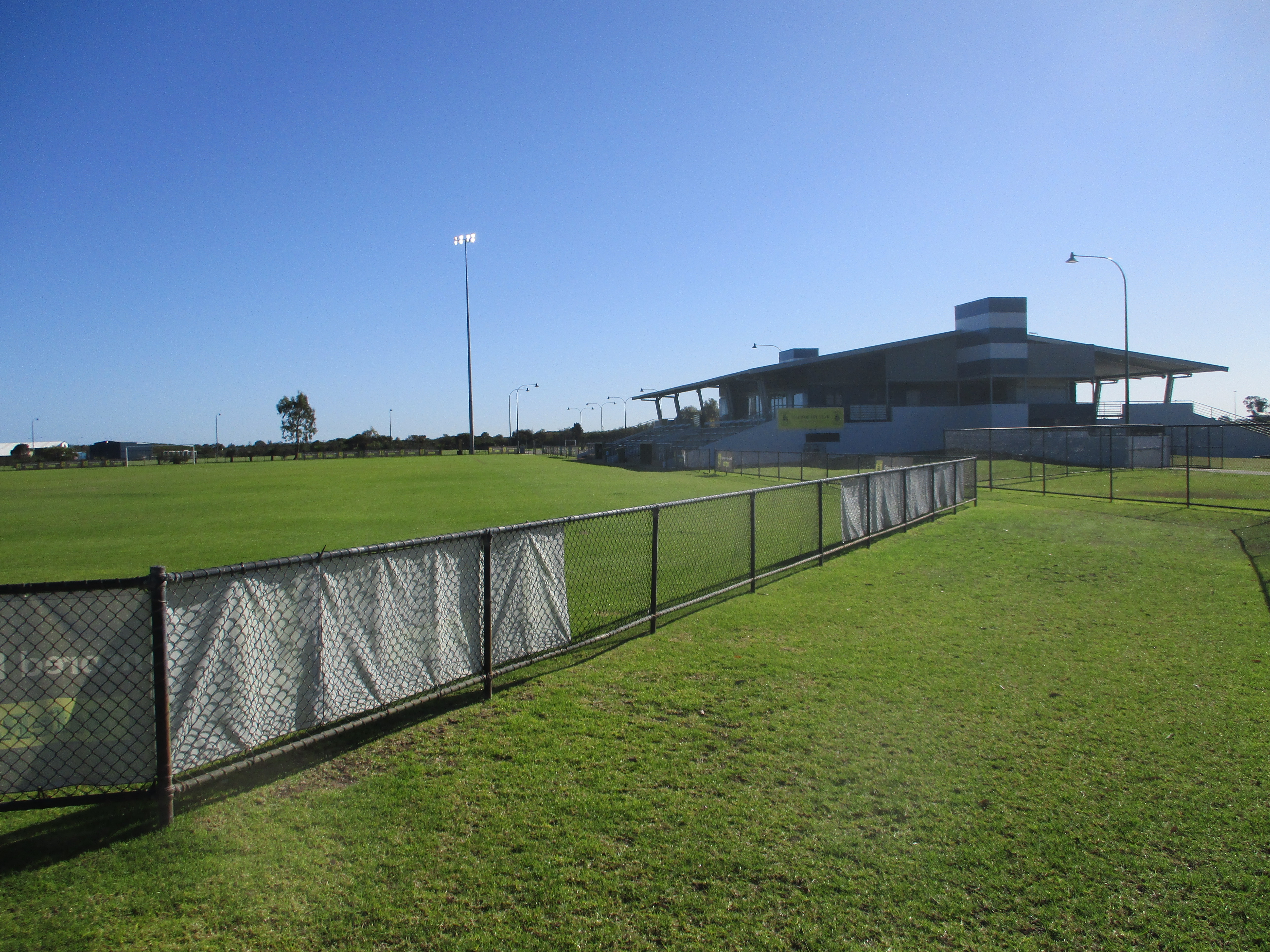 The Lark Hill Sports Complex, Port Kennedy, Western Australia. The football (soccer) club house and playing field.